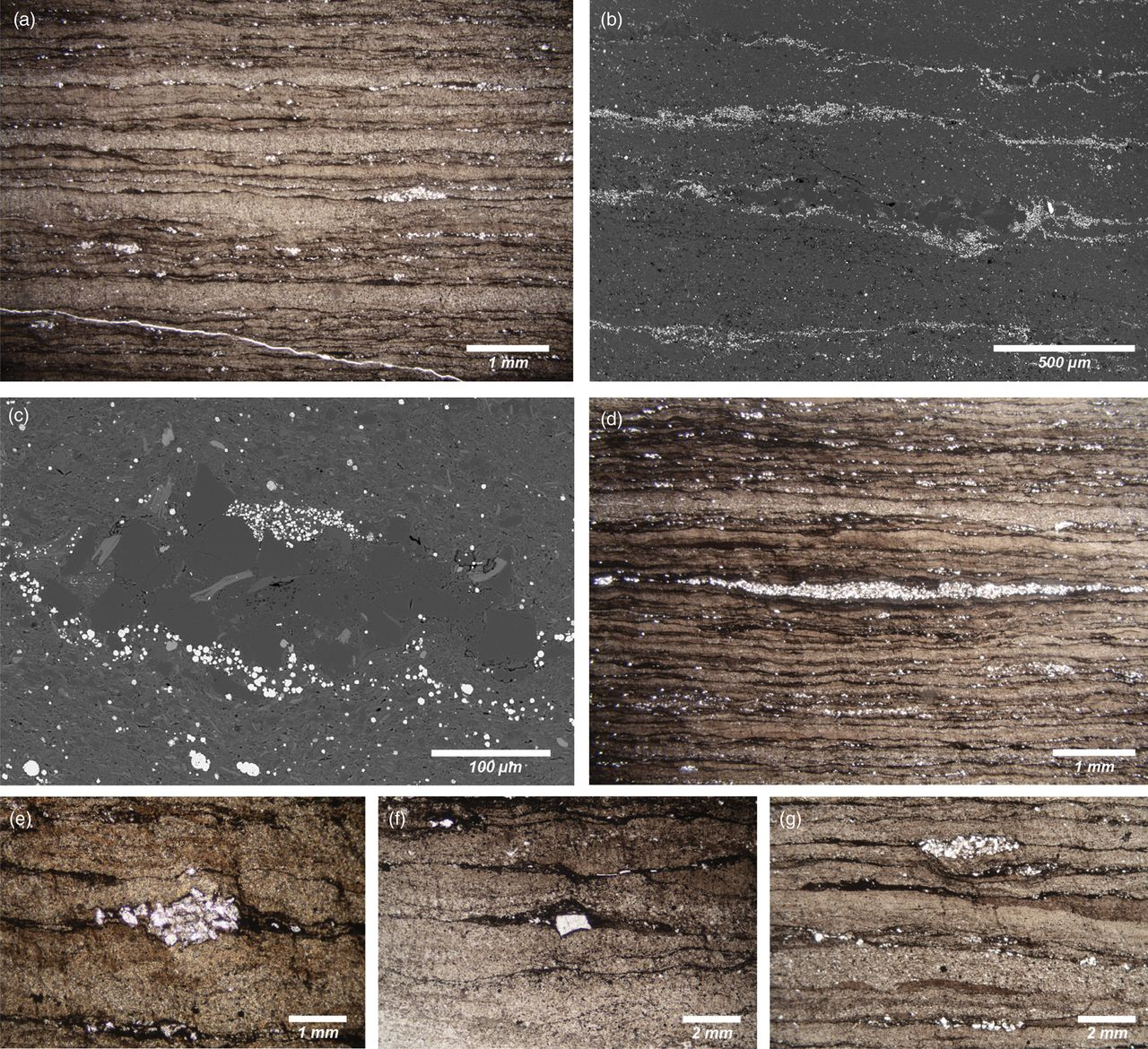 "Typical textural and compositional features of the Soom Shale sediment. (a)–(g) are petrographic images and (b) and (c) are scanning electron microscope backscattered electron images. (a) Typical intercalated homogeneous facies (four lighter layers) and dark, organic-rich laminated facies. The white patches represent clusters of quartz grains (see also (c), (d), (e) and (g)), which almost exclusively occur within the dark, organic-rich layers of the laminated facies. (b) Intercalated homogeneous and laminated facies. Here, pyrite framboids and microcrystals (bright grains) are confined to the laminated facies, probably precipitating within the organic-rich layers. In the centre of the image a cluster of large quartz grains (dark grey) occurs, bounded below by a pyrite-rich layer. (c) A cluster of grains in the laminated facies, comprising dominantly quartz (dark grey) with a few large clay grains (elongate, light grey grains); pyrite (bright grains) occurs around the cluster and denotes the likely position of organic matter (algae?). (d) An elongate cluster of quartz grains in the laminated facies. (e) Small, tightly packed quartz cluster. (f) A large and isolated quartz grain within a thin organic-rich layer. (g) Homogeneous facies (bottom) and laminated facies (top); within the latter lighter, brown lenses and layers occur; these are composed of mud"